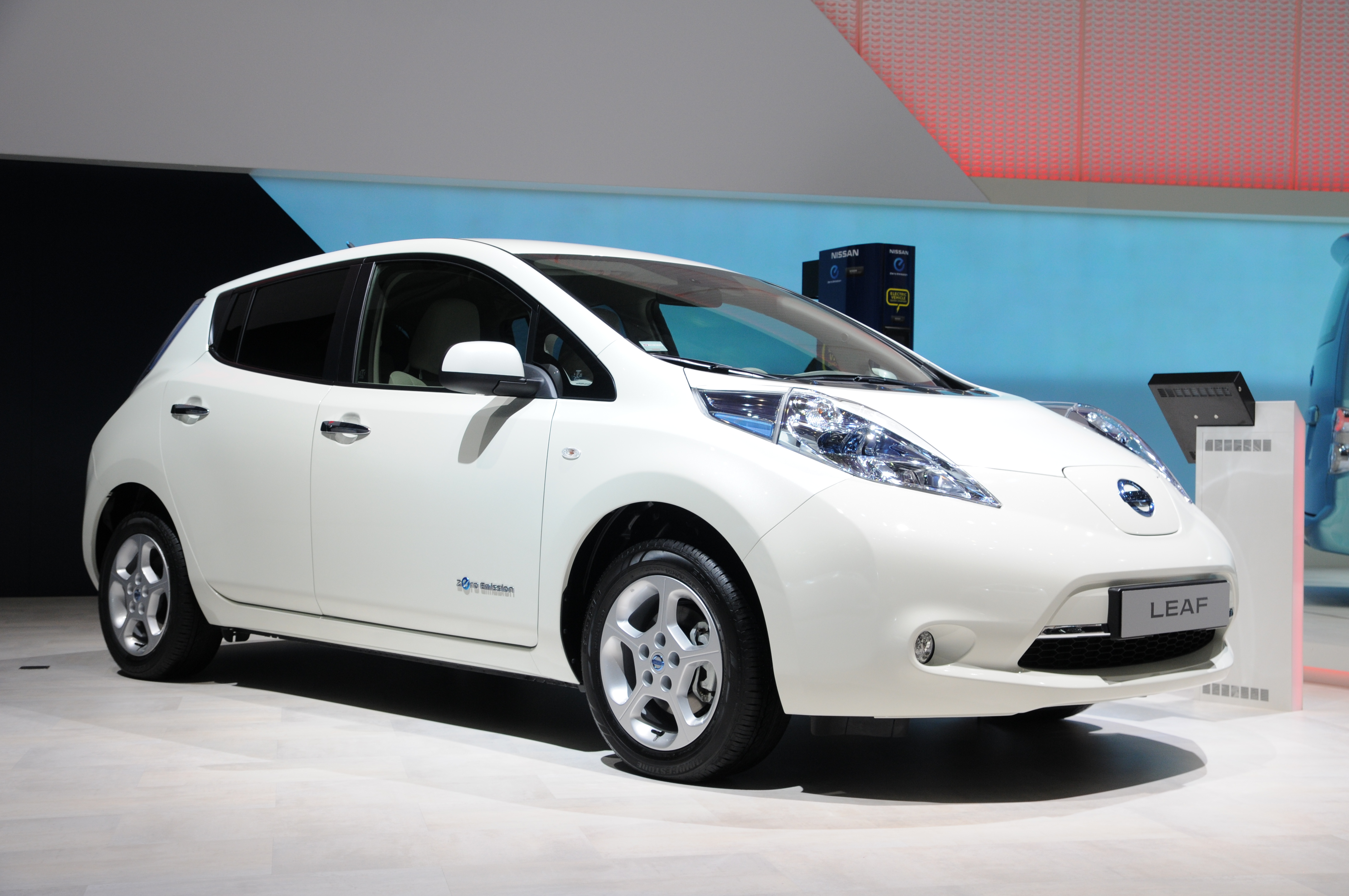 Geneva Motor Show 2012 (photos taken on the second press day)